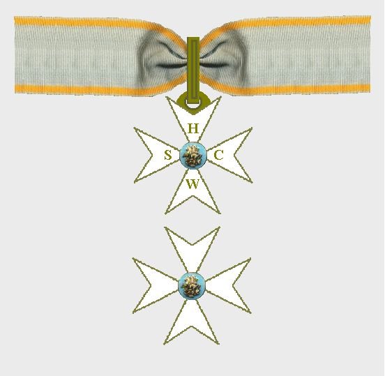 Insignia of this decoration are often to be found on German auctions. The Order is not mentioned in Jörg Nimmergut catalogue (numbers 10881091) of German "Orden und Ehrenzeichen".ed, 2002. What is it? What is this "Limburg"? I found it! It was founded by the counts of Limburg in the Holy Roman Empire. My own drawing of a Commanders Cross and "Steckkreuz". Vergissing rechtgezet; er staan in werkelijkheid geen letters op het borstkruis van deze orde maar wel op het juweel dat om de hals wordt gedragen. Robert Prummel 2007